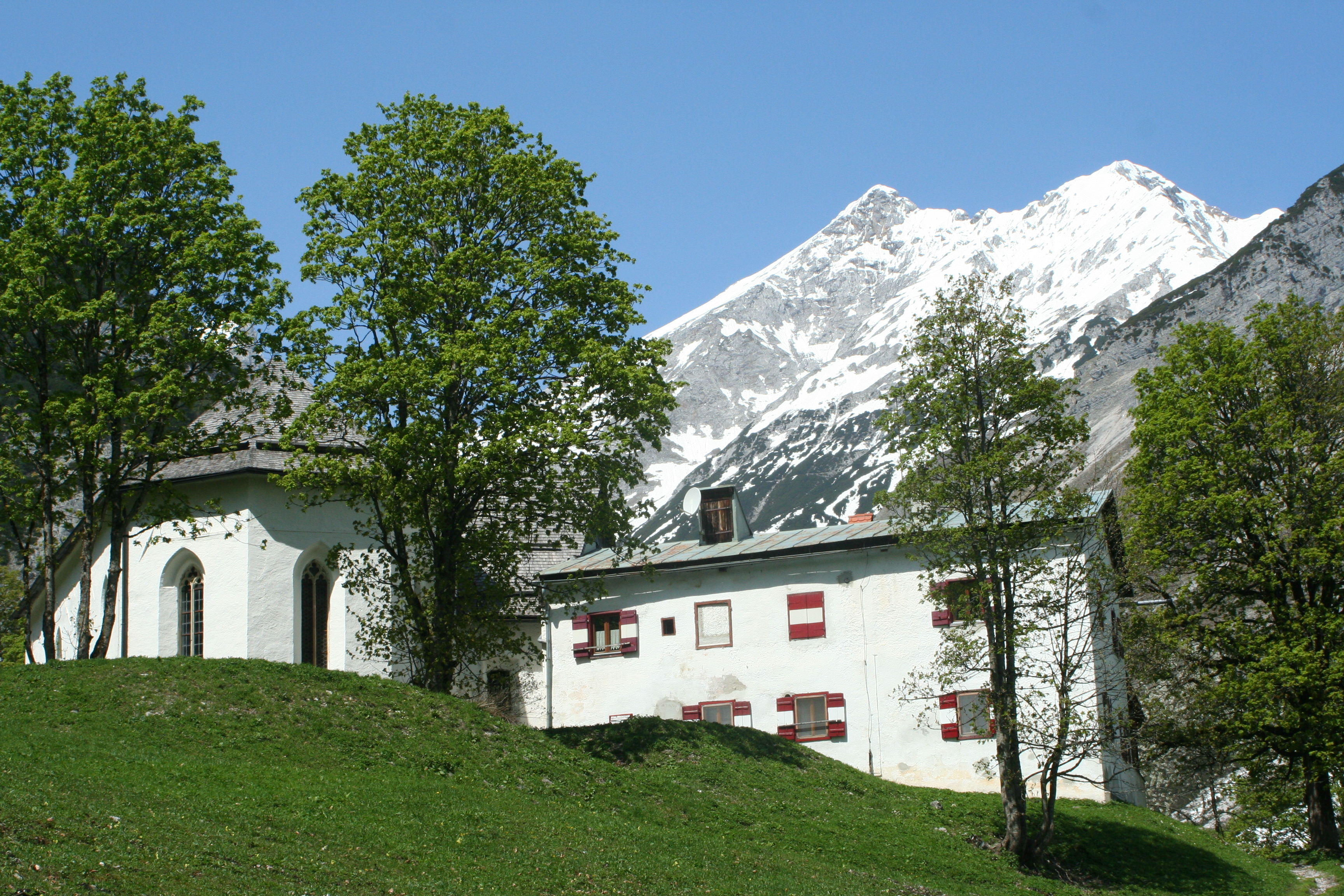 St. Magdalena in the Halltal, Karwendel, Austria, Tyrol, in the background Großer Lafatscher and Kleiner Lafatscher